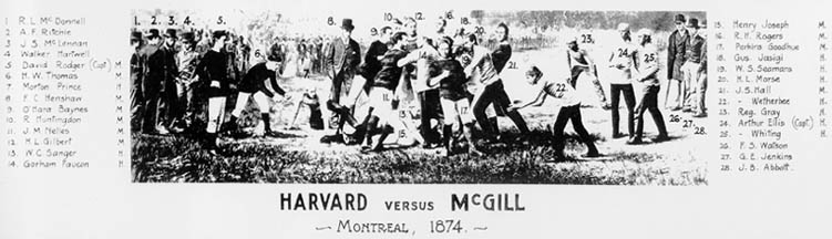 The McGill vs Harvard universities game, played in Montreal under the rules of rugby football. It was the third (?) game between them after the two matches played in the US in May.